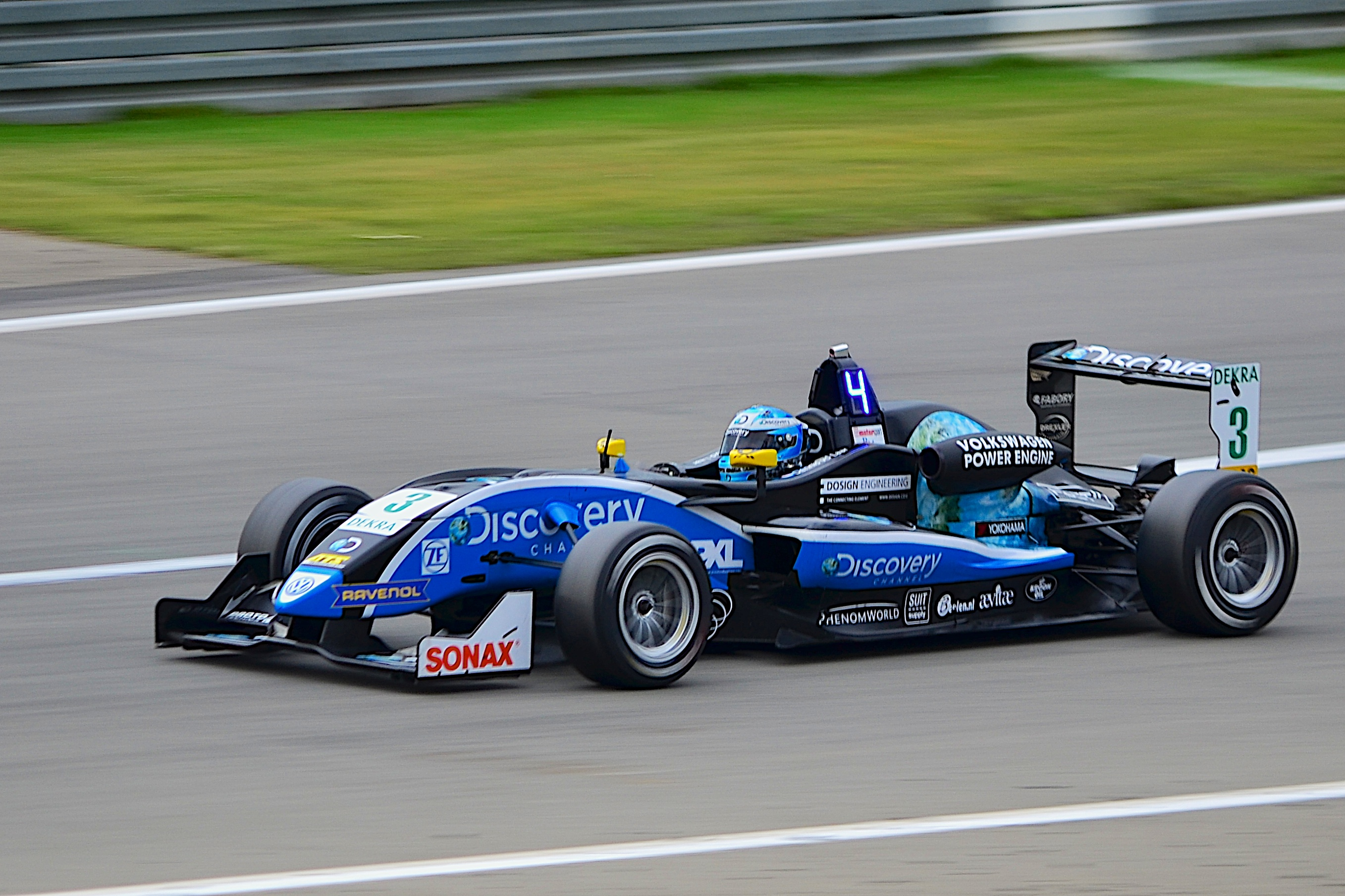 ATS Formula 3 Cup Racecar, Driver: Dennis van de Laar